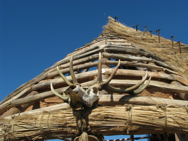 Crannóg construction, Castle Espie. Detail of 1491922, showing the skull of a stag adorning the entrance and the partially thatched roof. Dating from prehistoric or medieval times, crannógs are artificial islands constructed in lakes or rivers. They were most commonly used as settlements or dwellings - the surrounding water made it difficult for intruders to attack. They were most common in Ireland, particularly parts of Ulster, and also in Scotland. This Wildfowl & Wetlands Trust centre is situated on the site of a Victorian brick and pottery factory on the shores of Strangford Lough. See 8109242 for some related images.